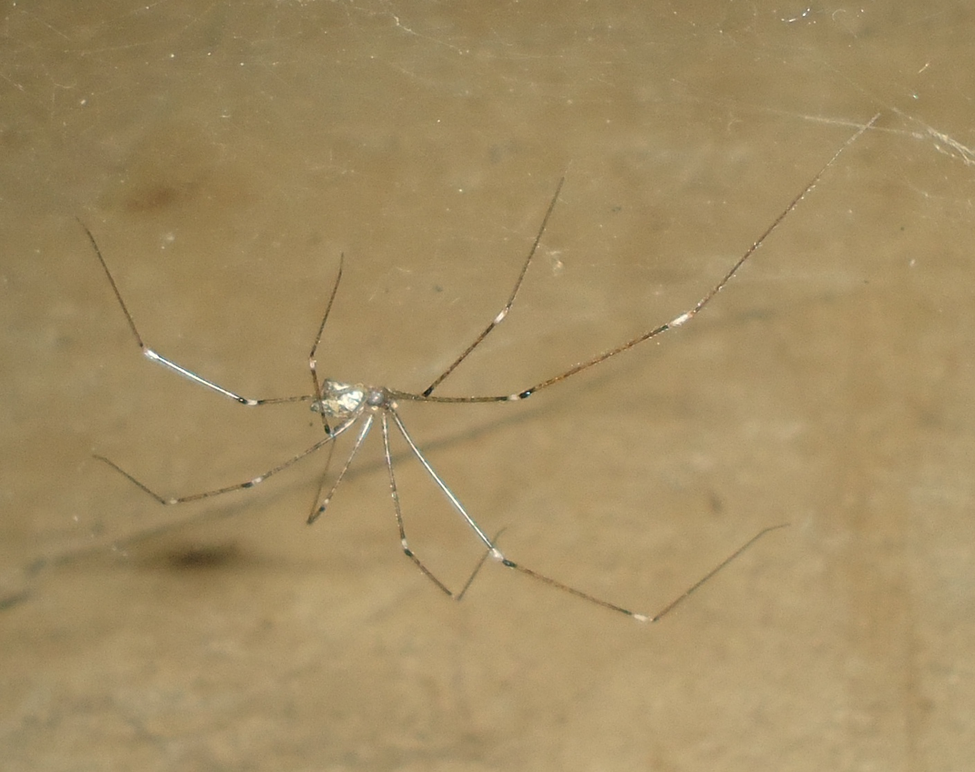 Female Crossopriza lyoni. Mindanao, Philippines